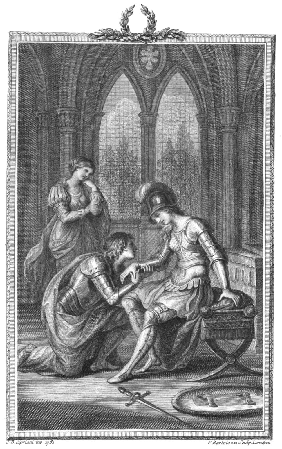 Metastasio - Il Ruggiero, Atto III, Scena IV. Ruggiero: „Ah sì, vinci te stessa: a’piedi tuoi / L’implora il tuo Ruggier.”